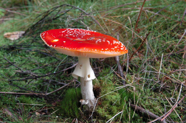 Amanita muscaria from Commanster, Belgium. The determination of the species shown in this picture has been verified.